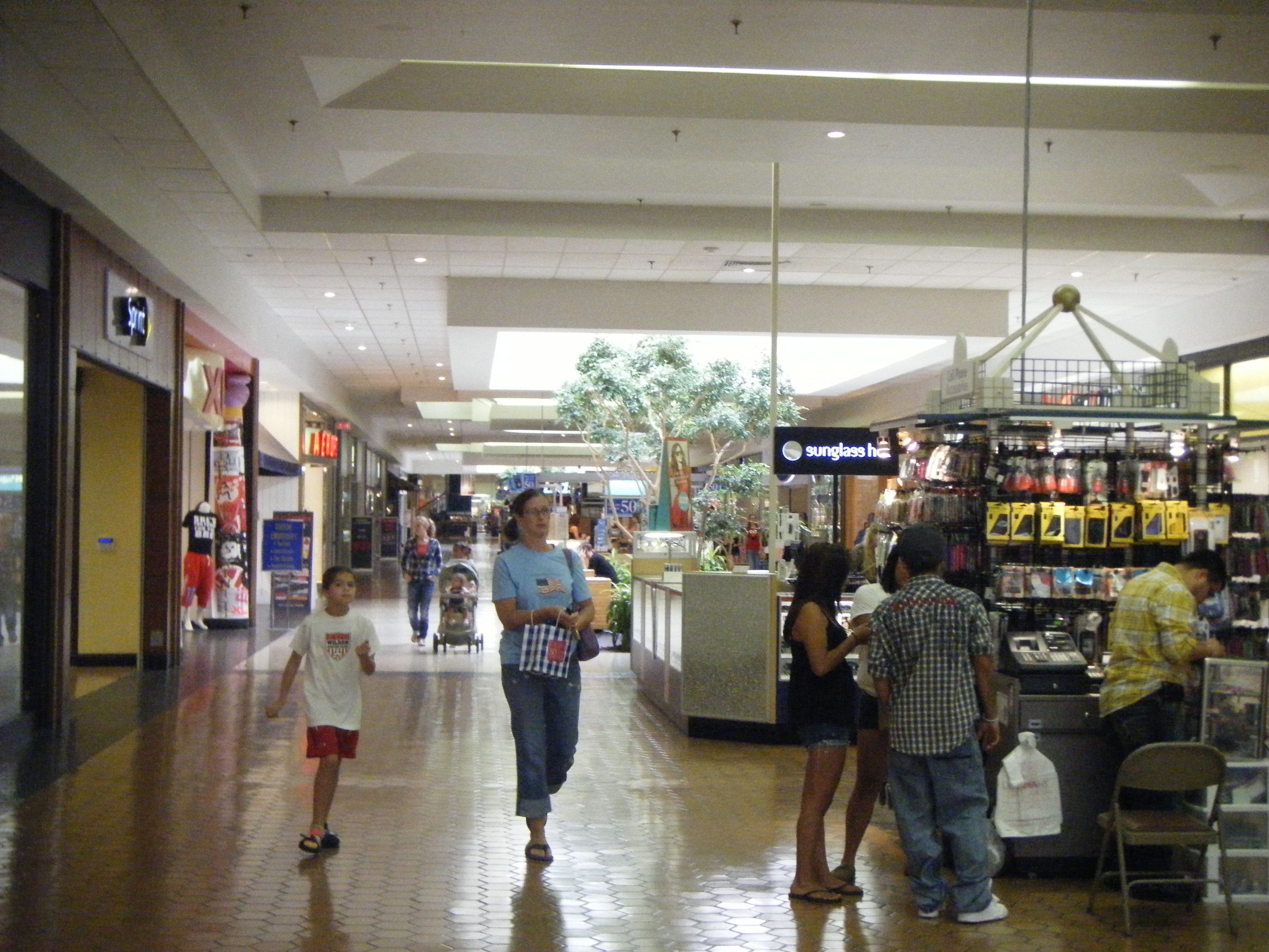 A view of the Berkshire Mall in Wyomissing, Pennsylvania looking from (now closed) Sears